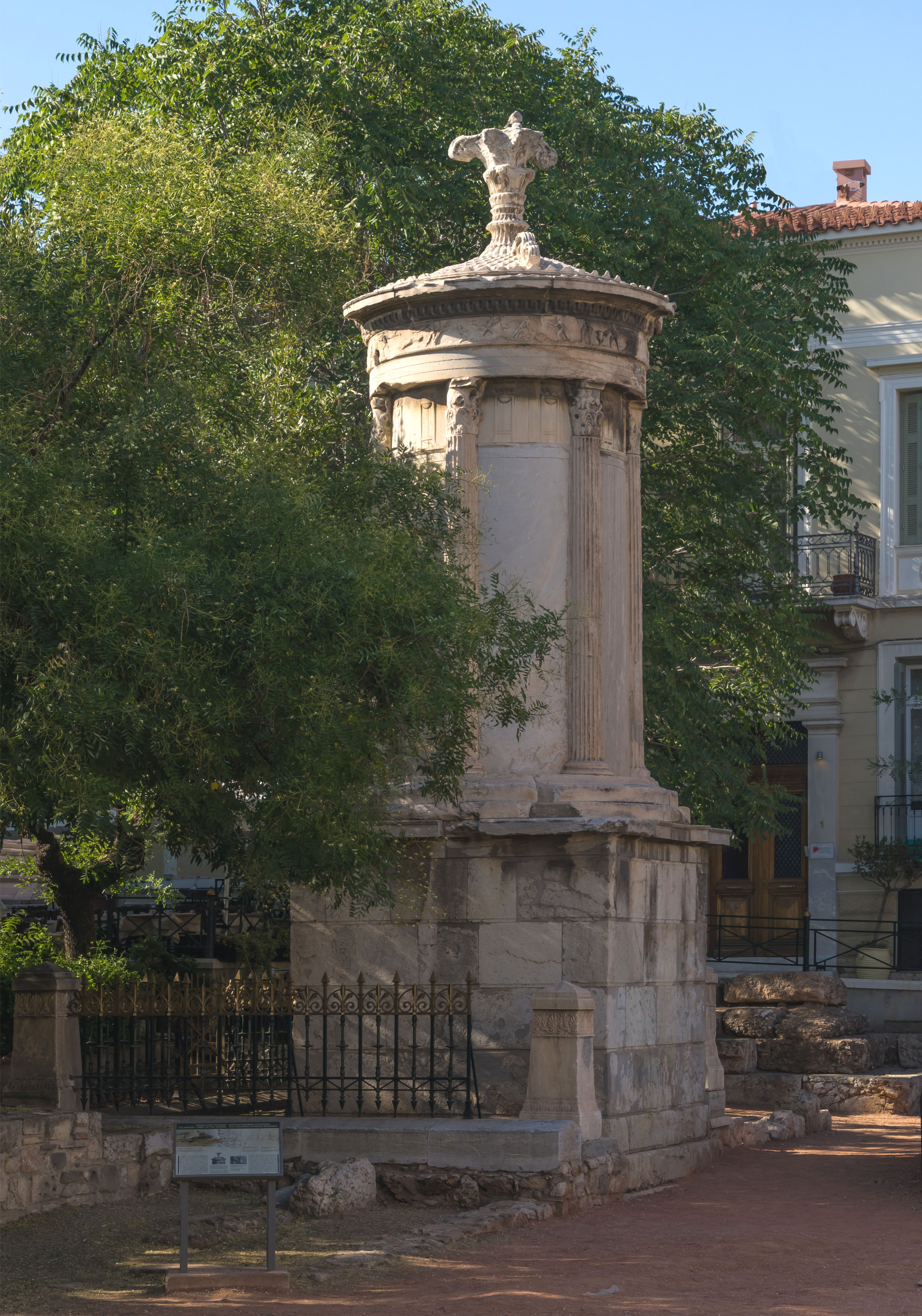 Choragic monument to Lysicrates, Athens, Greece.«Μνημείο Λυσικράτους»